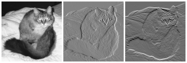 Left: Intensity image Center: Gradient image in X direction Right: Gradient image in Y direction The image on the left is an intensity (black and white) image of my cat, Angel. This image was used to produce the two gradient images, which measure the change in intensity in their given directions.